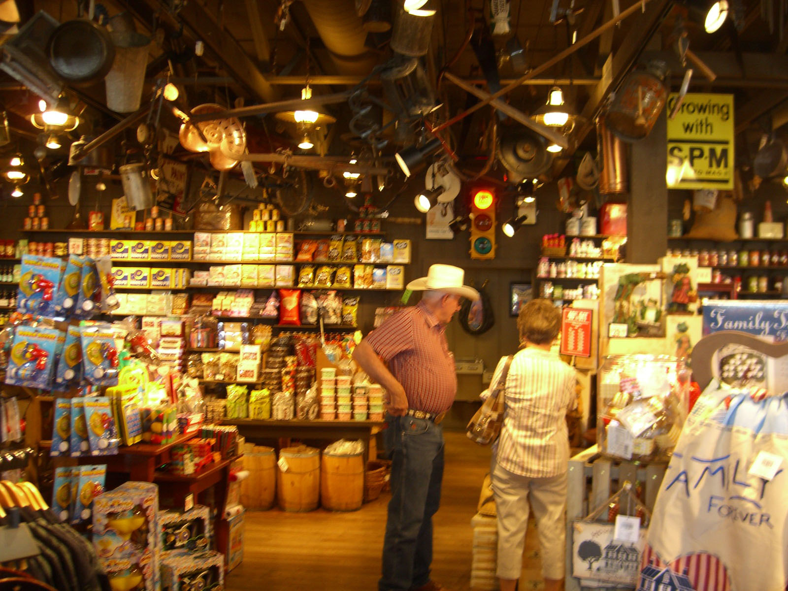 The interior of the Cracker Barrel in Albuquerque, New Mexico.